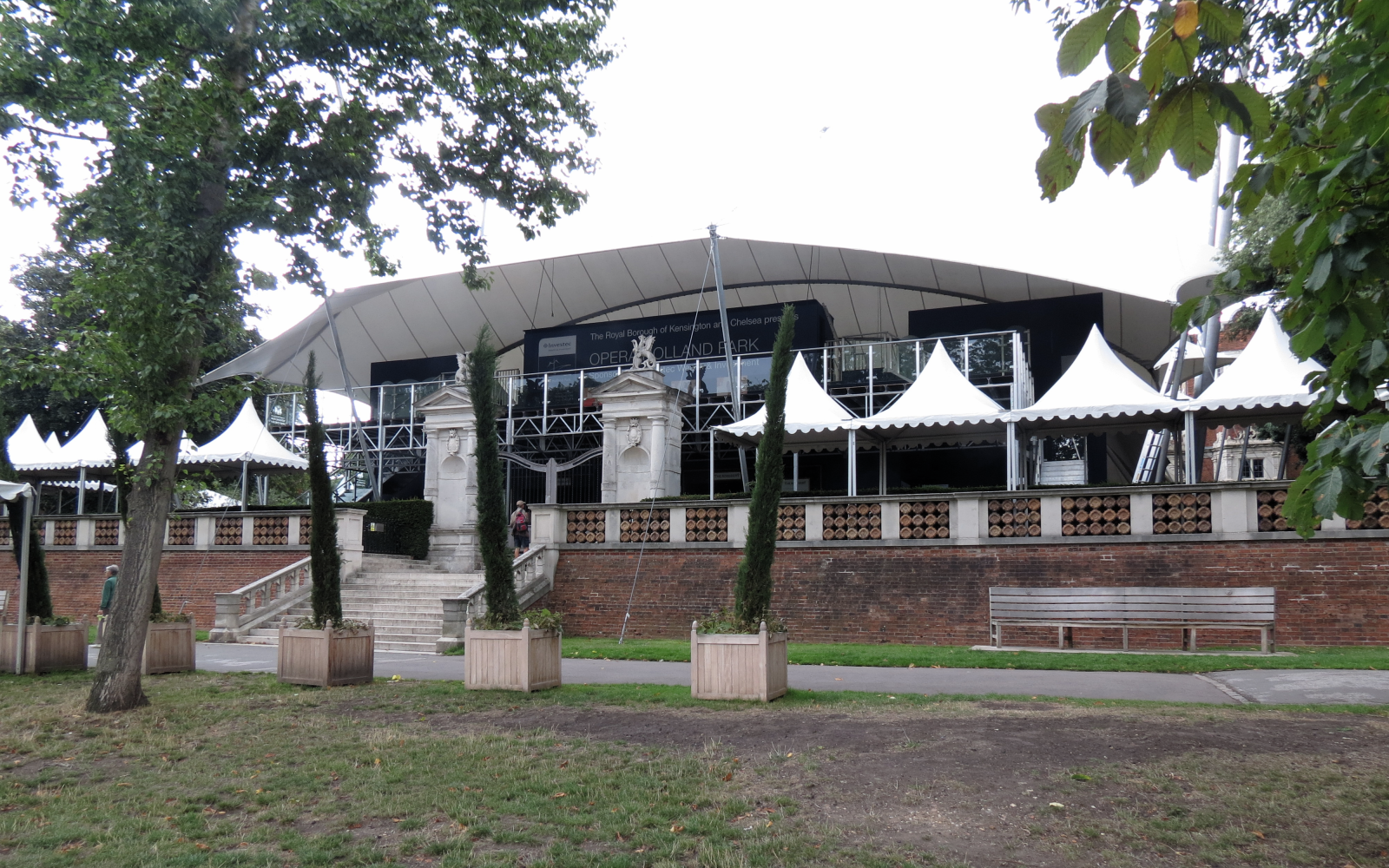 Opera Holland Park - during the summer they create an outdoor opera stage on the site of old Holland House